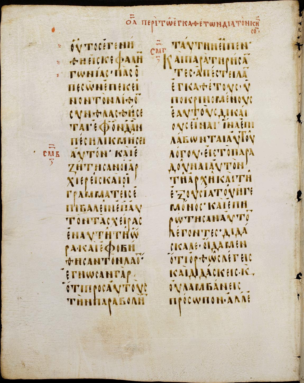 folio 169 verso with text of Luke 20,17-21